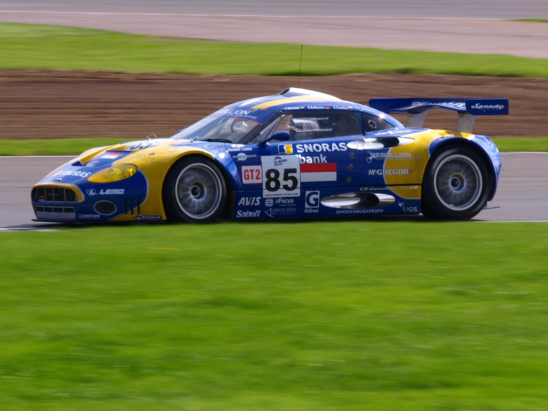 Snoras Spyker Squadron's Spyker C8 Laviolette GT2-R at the 1000km of Silverstone